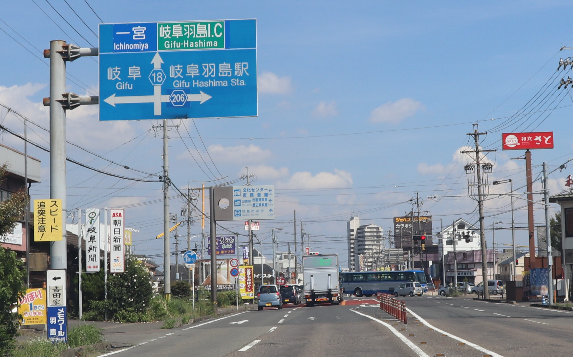 Gifu Prefectural Road Route 18 and Gifu Prefectural Road Route 206 in Fukujucho, Hashima, Gifu Prefecture, Japan.